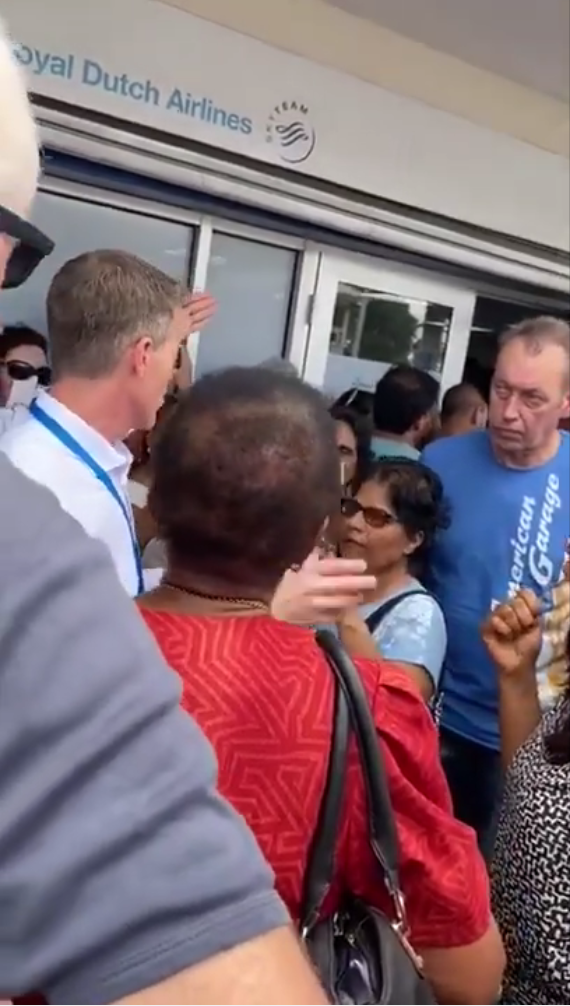 Offices of Air France–KLM after the borders of Suriname closed due to the COVID-19 pandemic